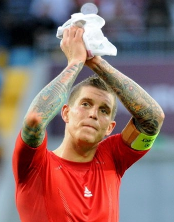 Daniel Agger at the Euro 2012 match against Portugal